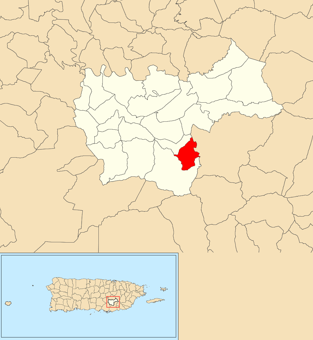 Culebras Alto, Cayey, Puerto Rico locator map